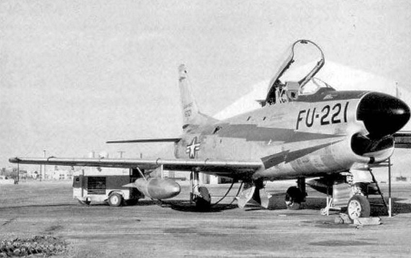 93d Fighter-Interceptor Squadron - North American F-86D-35-NA Sabre - 51-6221